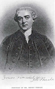 Henry Thrale by Sir Joshua Reynolds